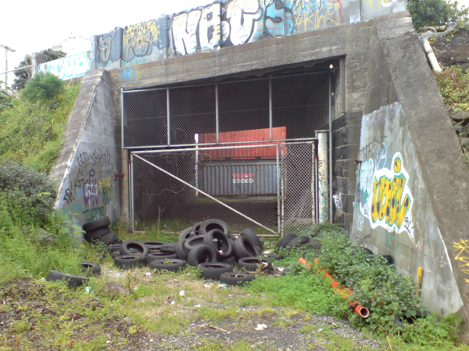 A westwards view into the old railway tunnel leading under the old Mangere Bridge abutment into the Port of Onehunga, Onehunga, Auckland City, New Zealand. Looks a bit like "Half-Life 2".